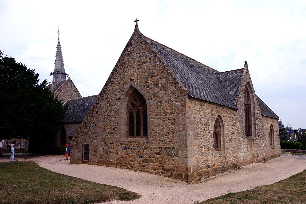 France, Brittany, Plougrescant, St Gonery chapel